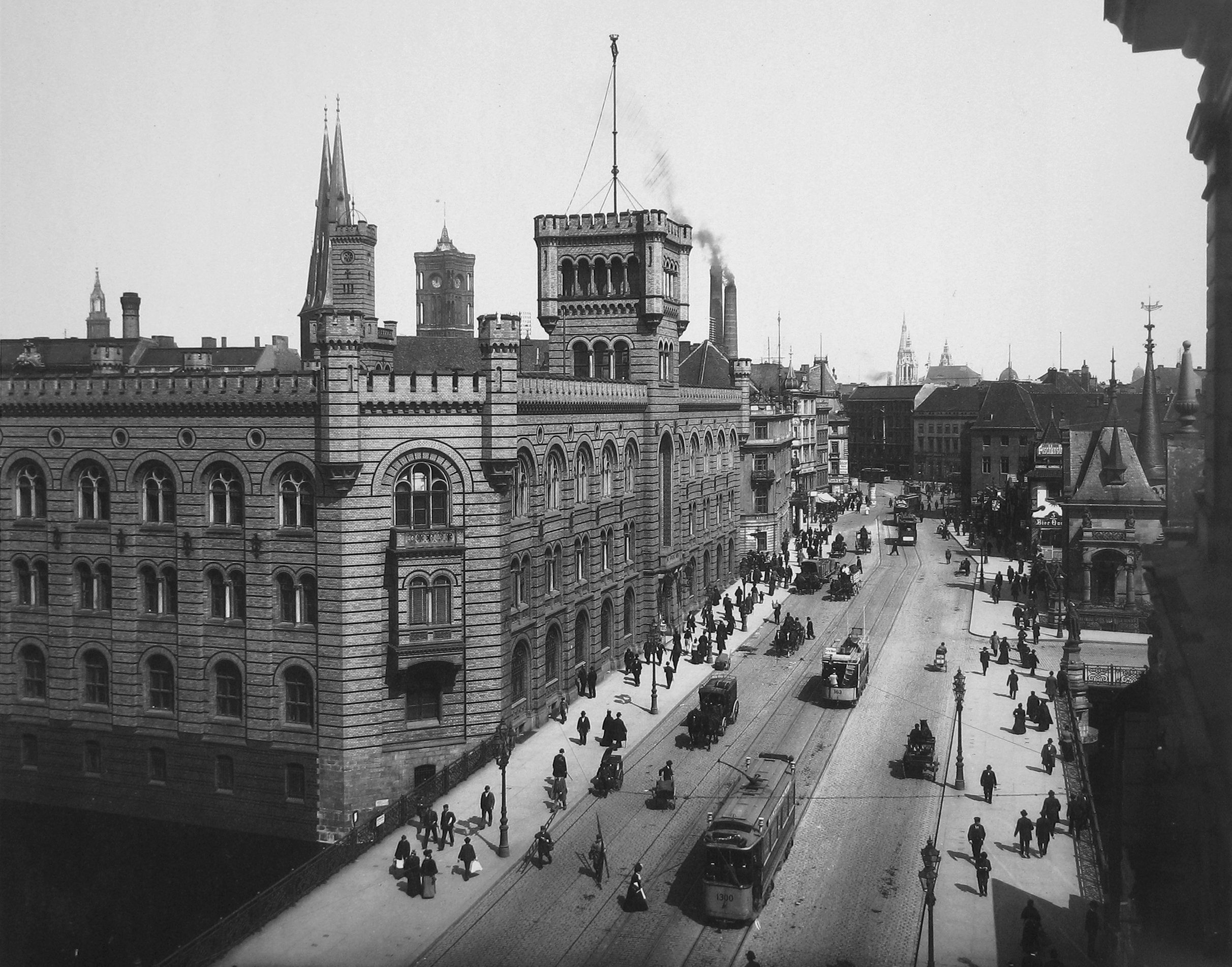 Berlin. View down Mühlendamm.